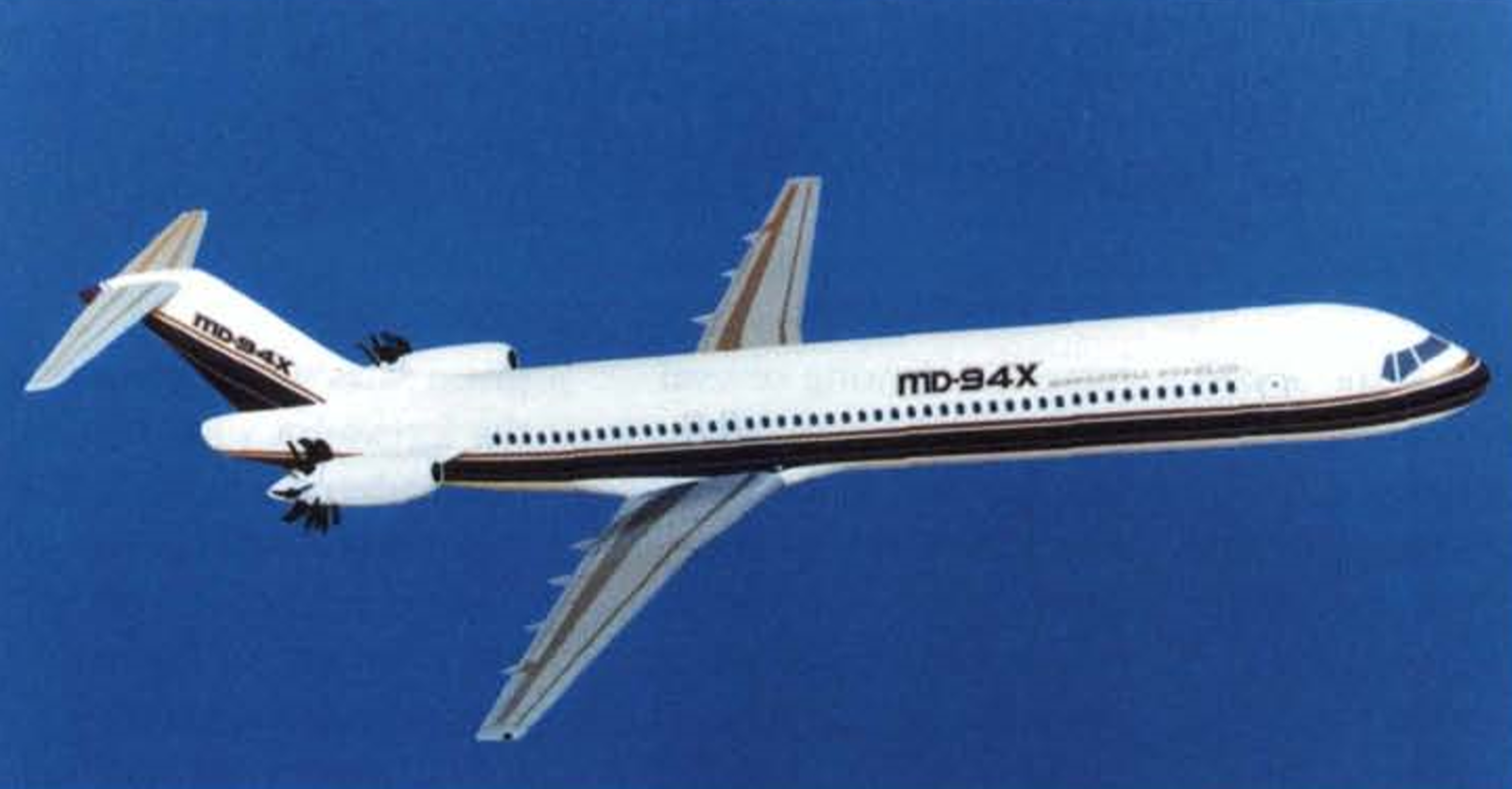 A model of McDonnell Douglas's proposed MD-94X propfan aircraft, which would seat 160 to 180 passengers and debut in 1994.